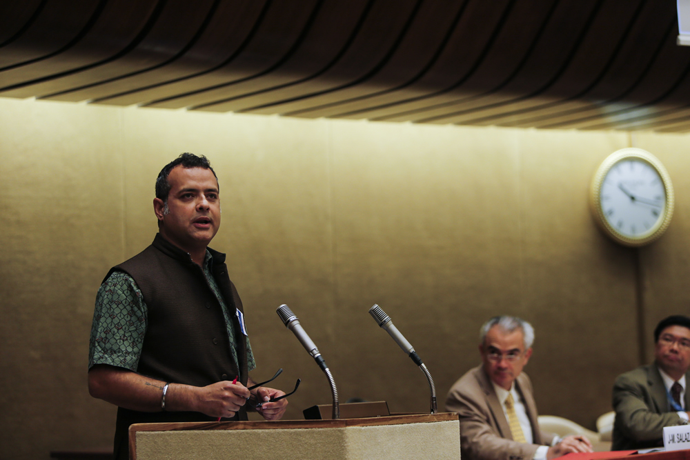 Mr Vijay Prashad - professor of internationl studies at Trinity College in Hartford, delivers his speech as key panelist on UNCTAD's second day of the Public Symposium. Many international delegates, government officials, representatives and observers gathered at UNCTAD Public Symposium - Geneva, Switzerland, 25 June, to discuss key issues on Trade and Development.